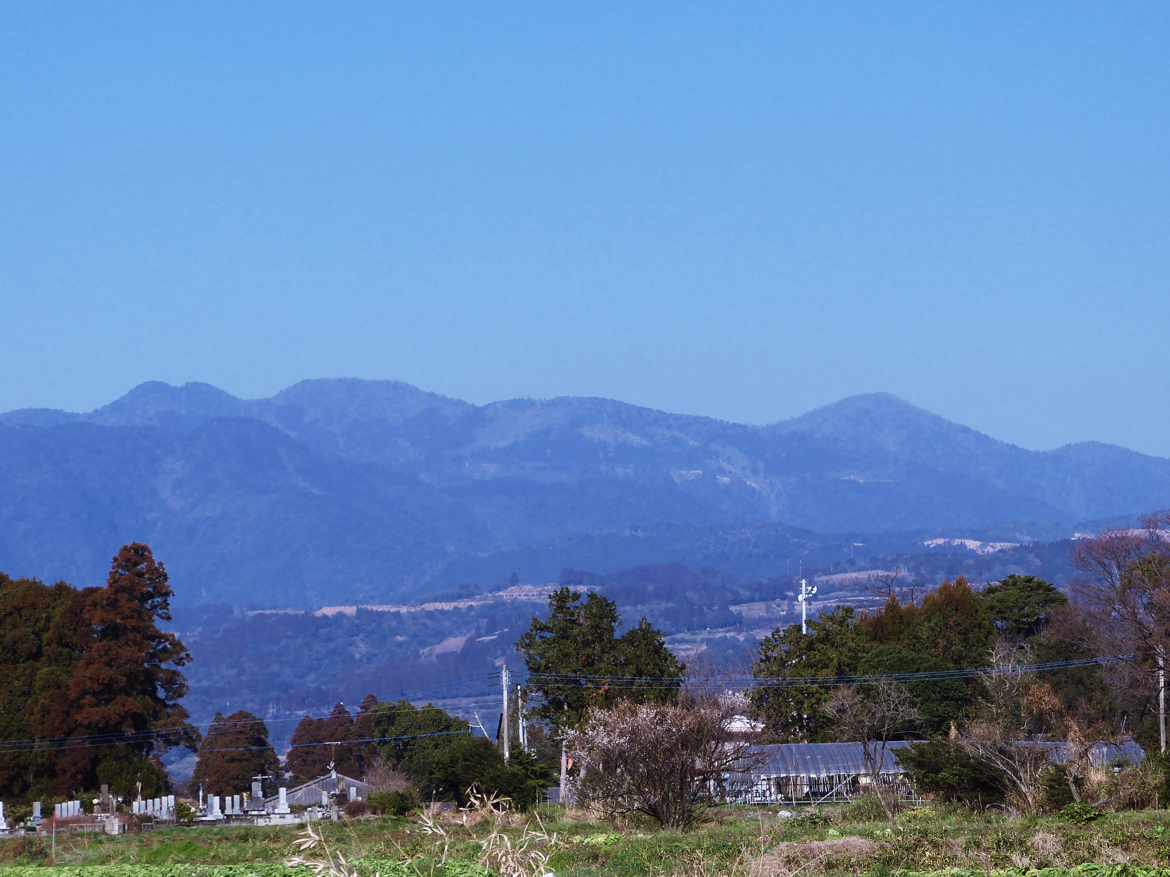 Mt Osuzuyama,Miyazaki prefecture, Japan